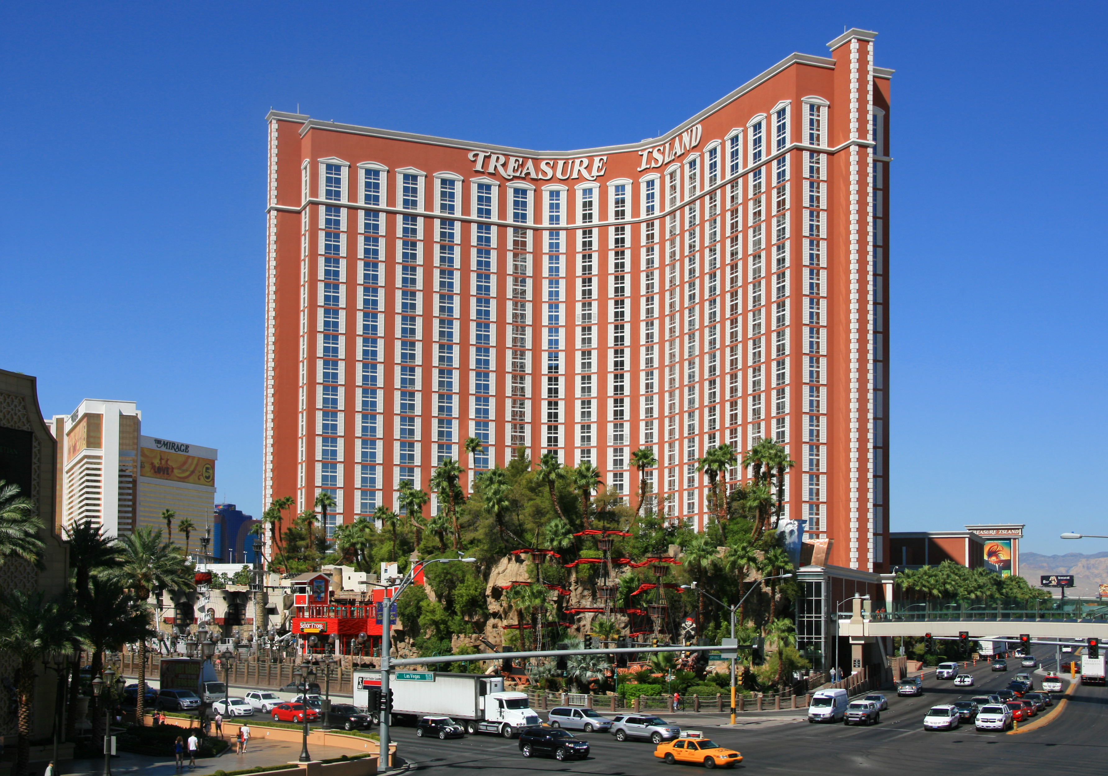 Treasure Island Hotel, Las Vegas, Nevada.